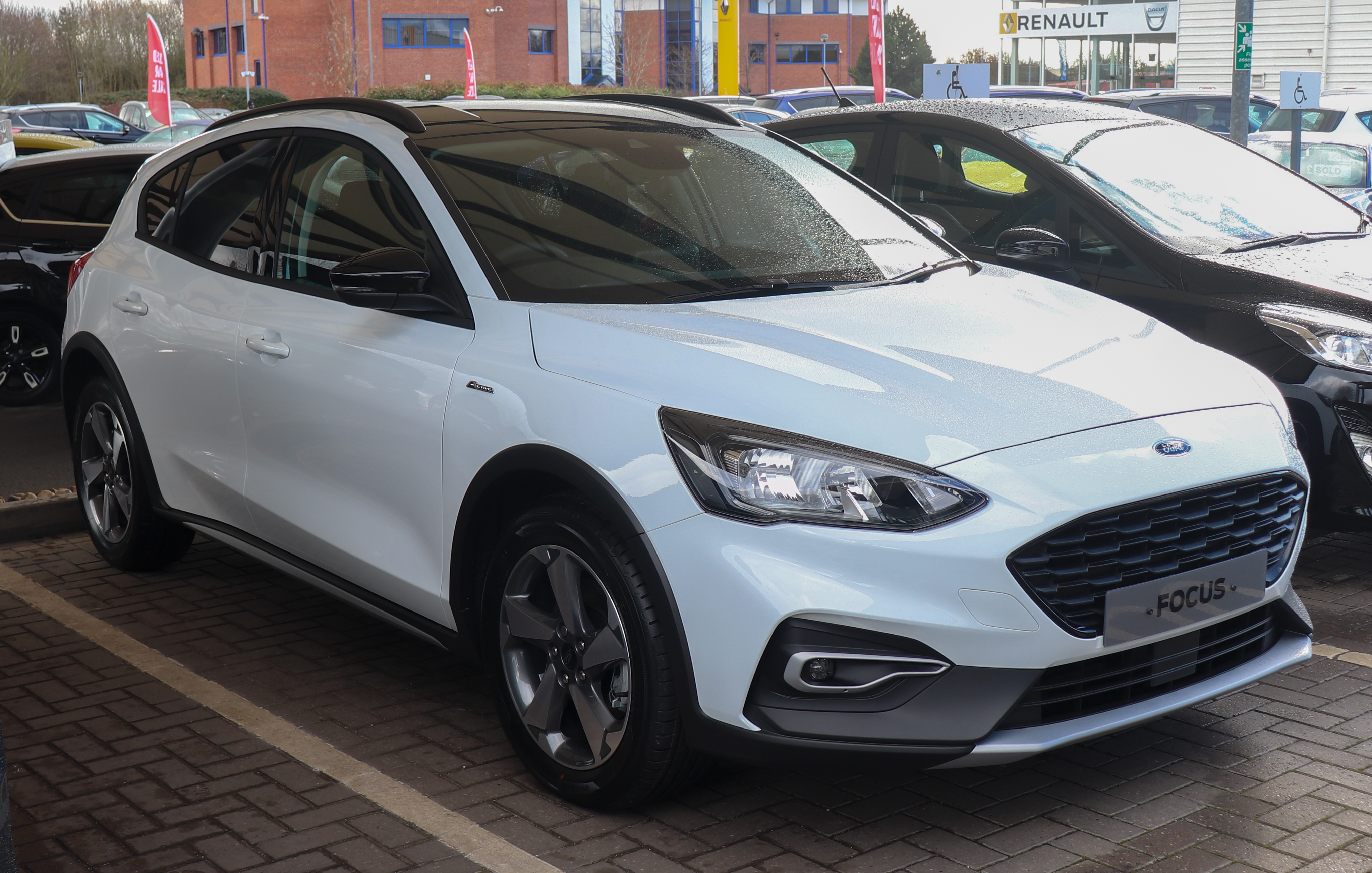 2019 Ford Focus Active Ecoboost 1.0 Taken in Leamington Spa